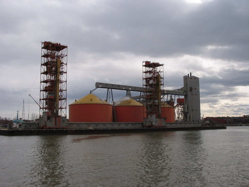 The view upon entering the ferry port at Sorel, Quebec.